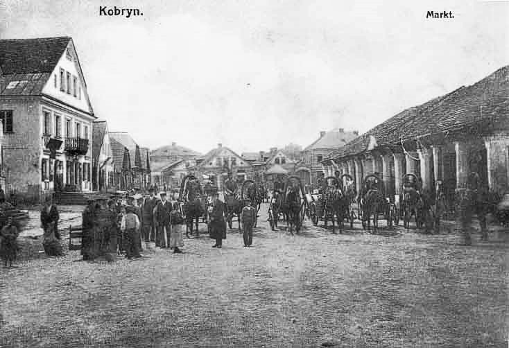 Kobryn marketplace during German occupation (1915-1918)